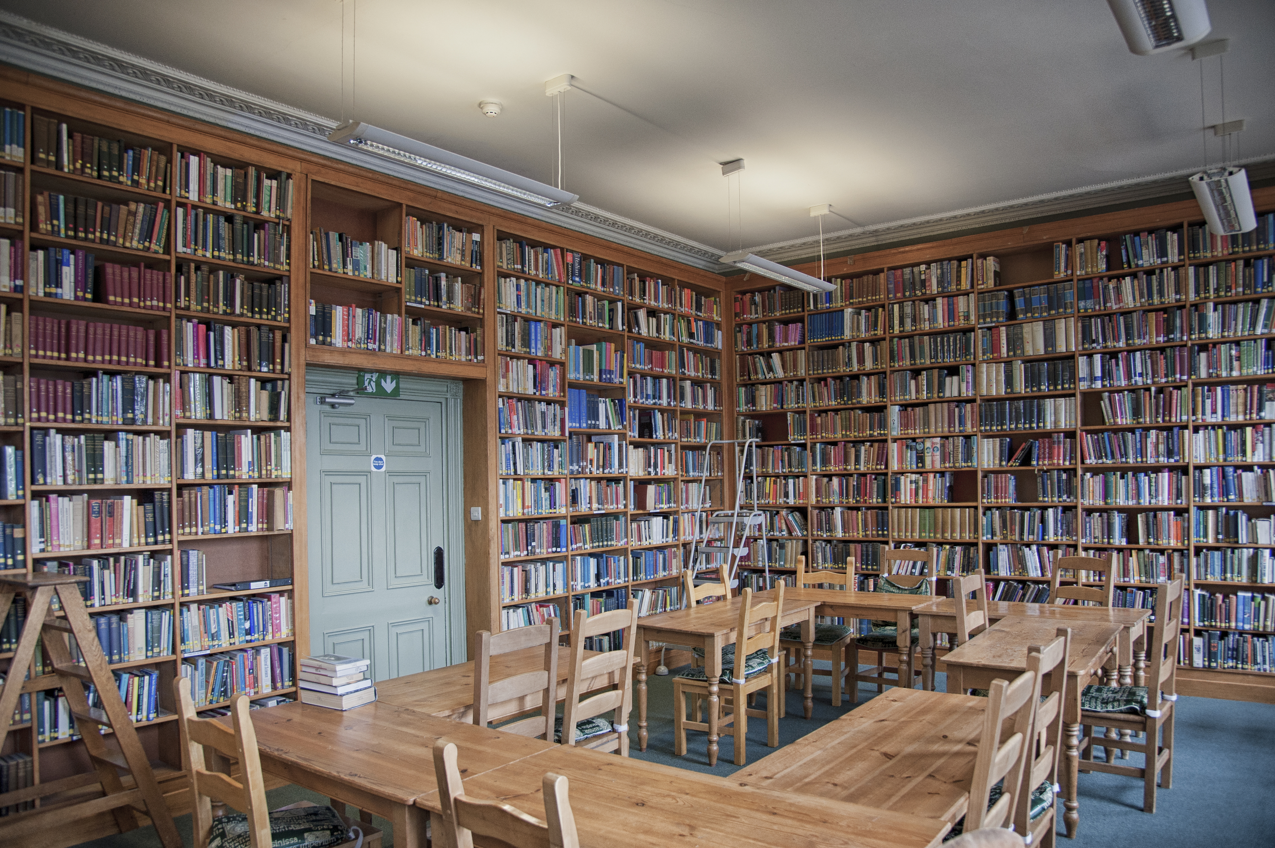 St Benet's Hall Oxford University library 2012